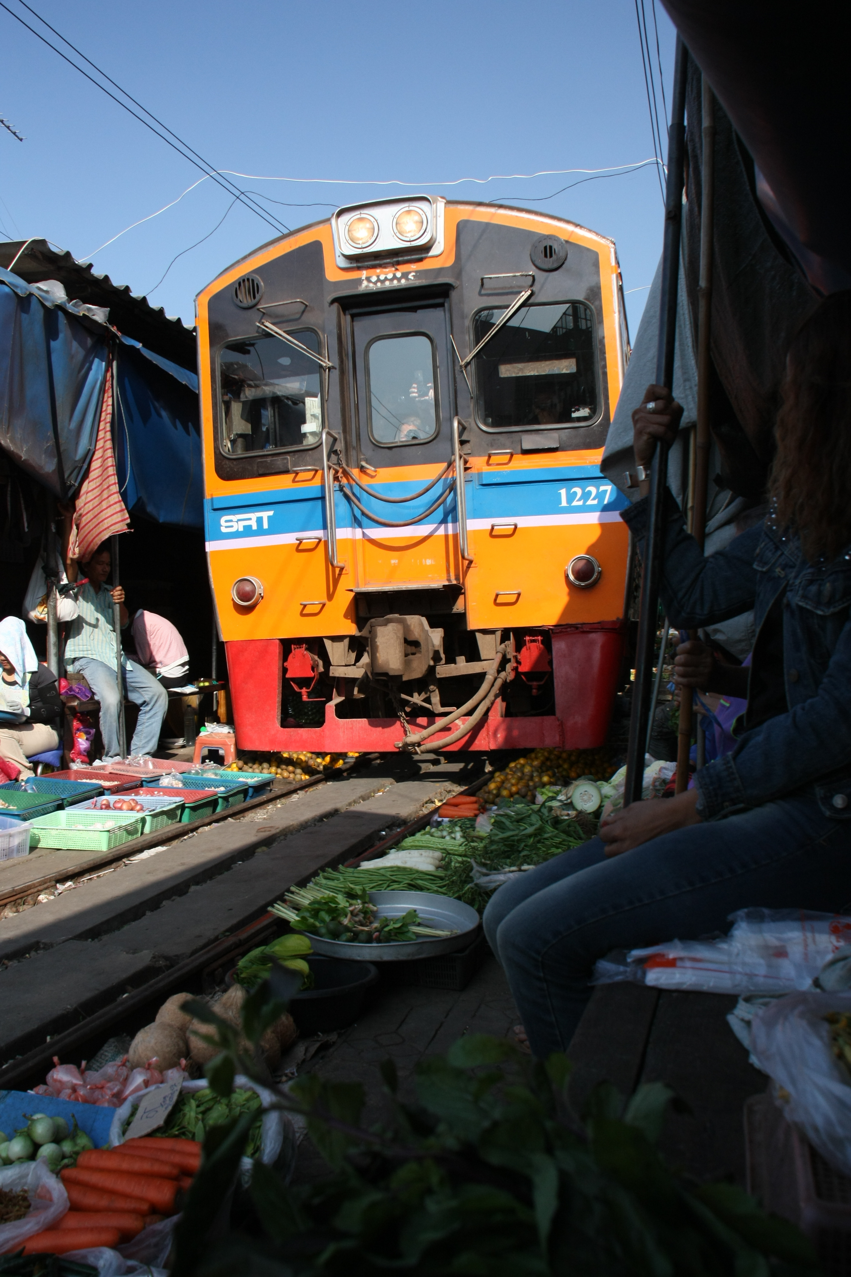 SRT train in Samut Songkhram, Thailand. The local market is established on the railway, forcing the sellers to retract their stand every time a train goes to the station.